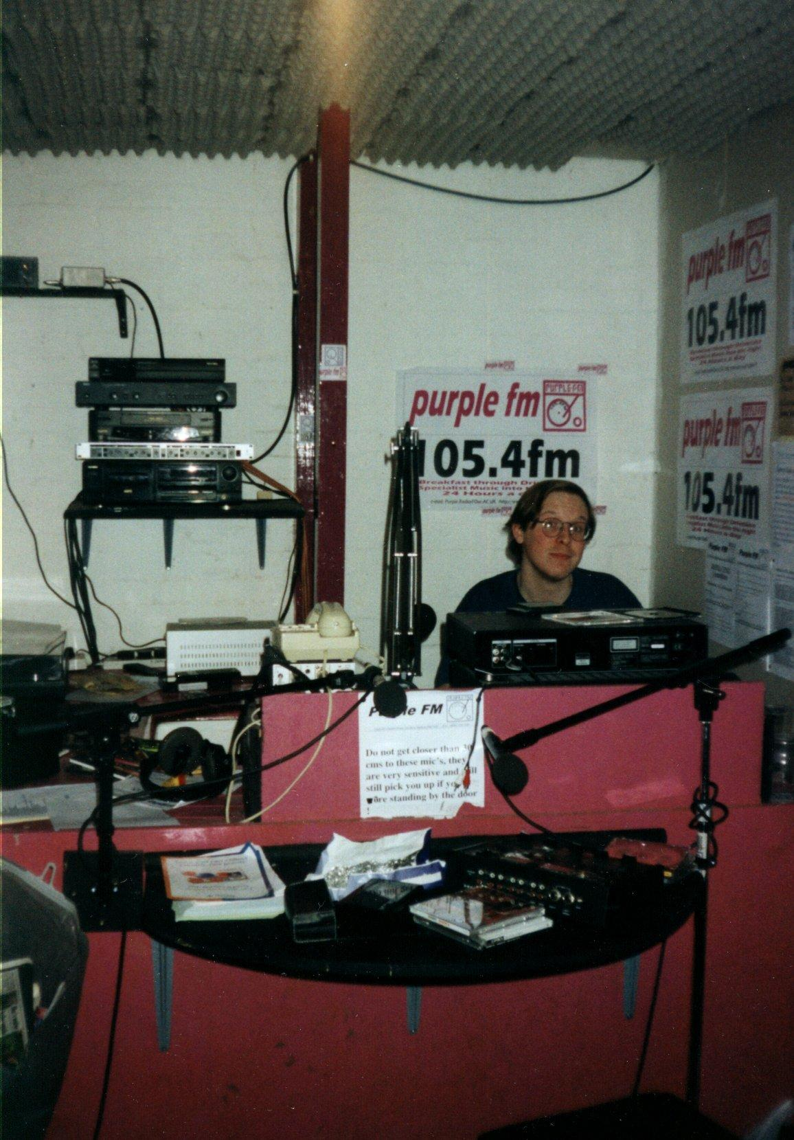 Looking wistfully into the distance... Well have you ever tried doing a lively radio show at 6:30am? For background information and dodgy audio clips, visit